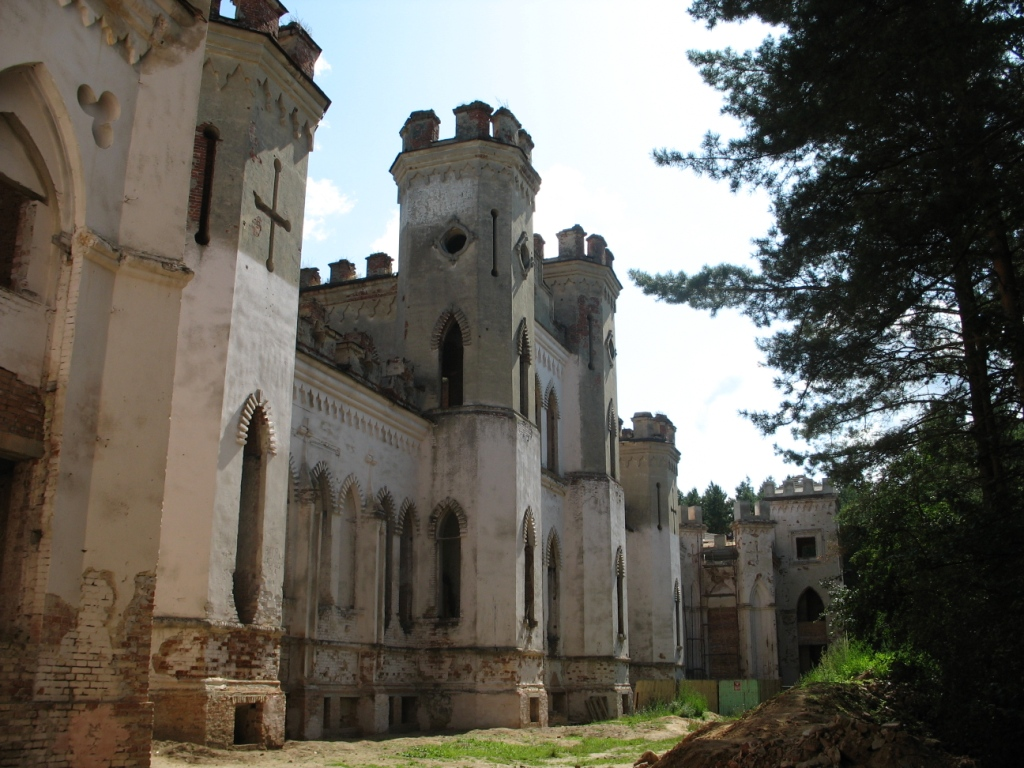 Kosava Castle, Belarus. Restauration